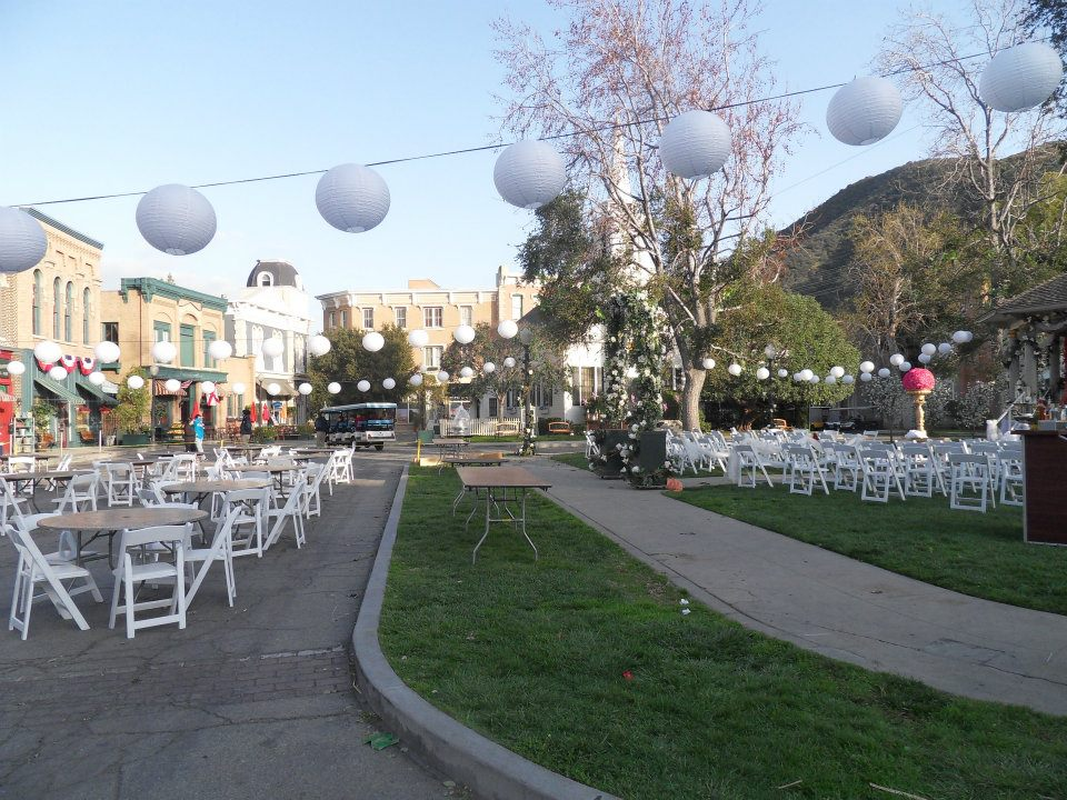 Movie shooting at Warner Bros studios, Burbank, CA